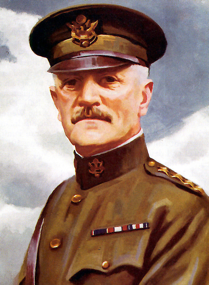 General of the Armies John J. Pershing, Chief of Staff of the U.S. Army.